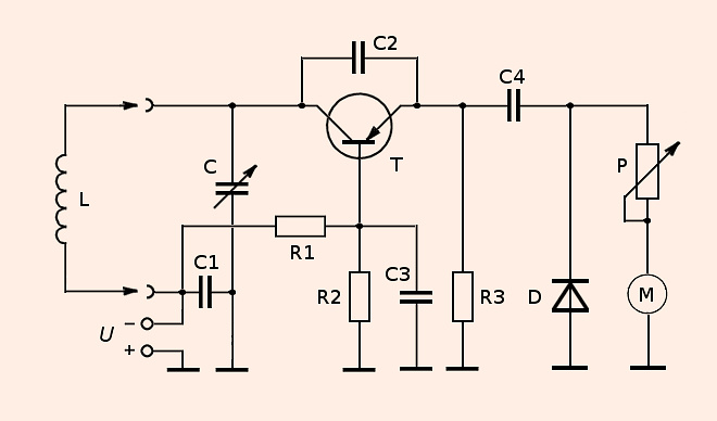 Circuit diagram